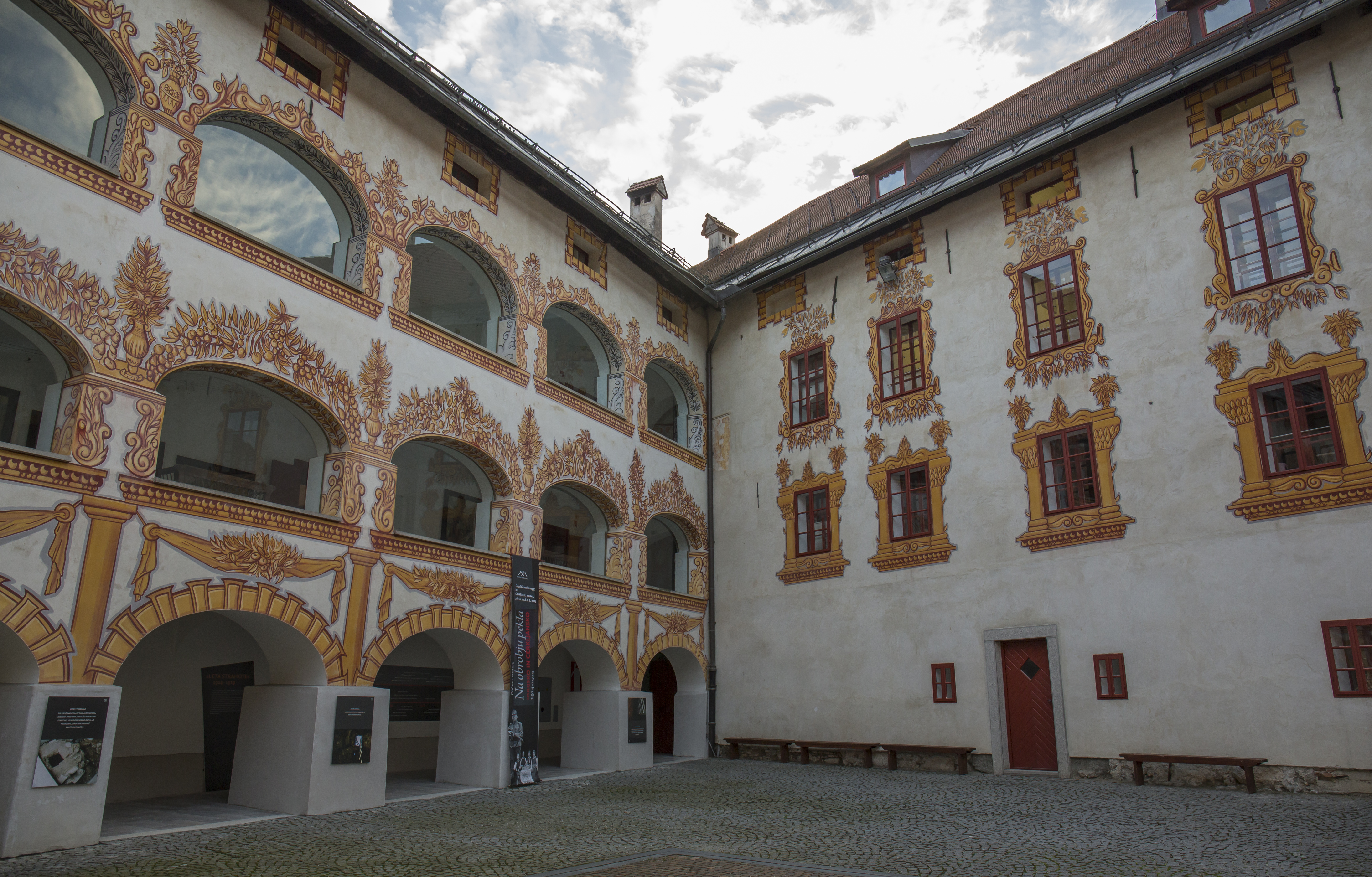 Inner courtyard of the Gewerkenegg Castle, Idrija, Slovenia.